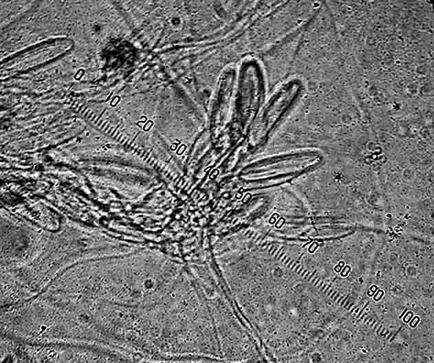 Photo from optical microscope. A sea anemone heteractis crispa has fired some nematocysts (?)